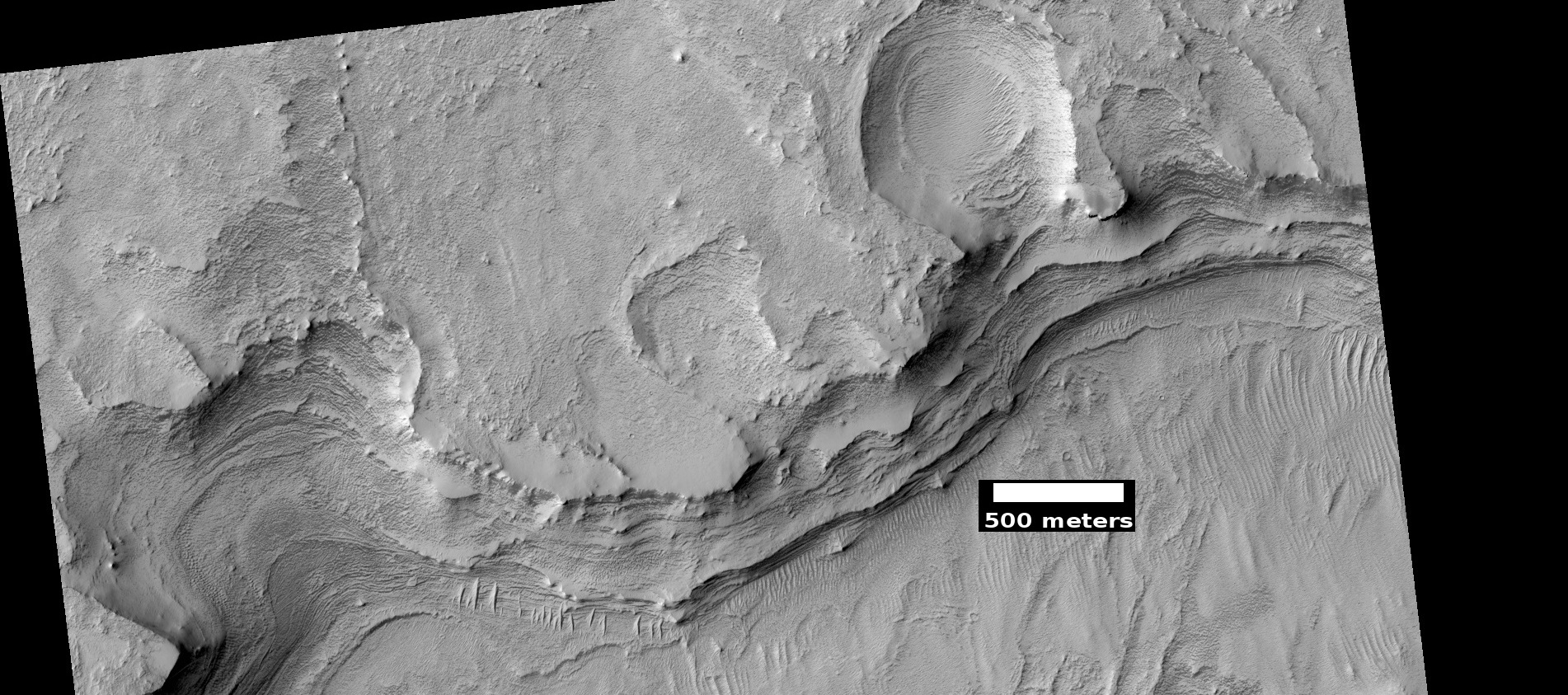 Part of flammarion Crater, as seen by hirise